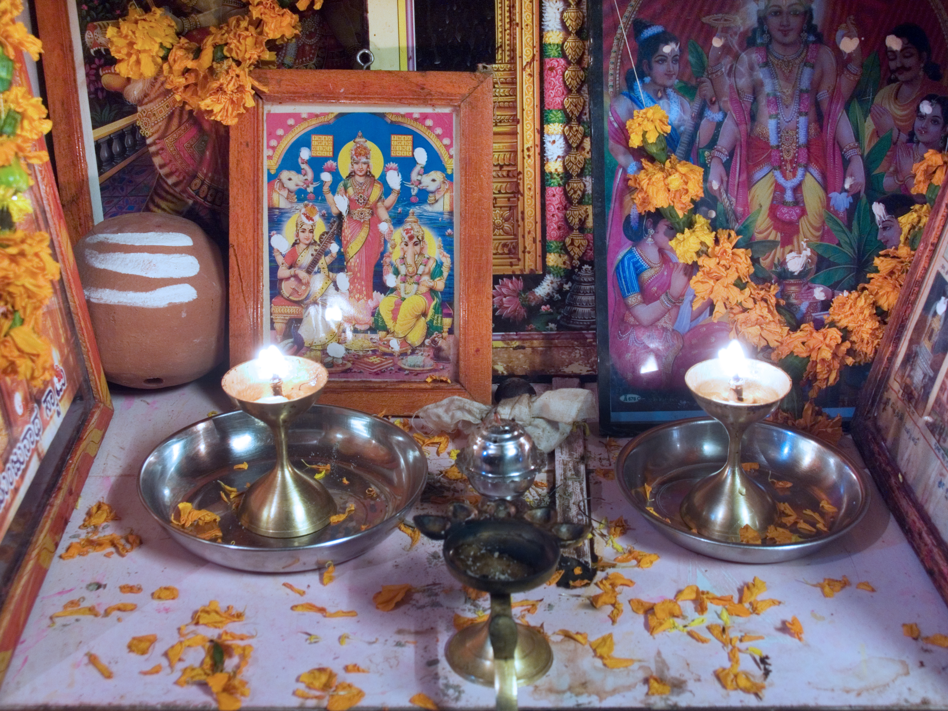 A family altar. India